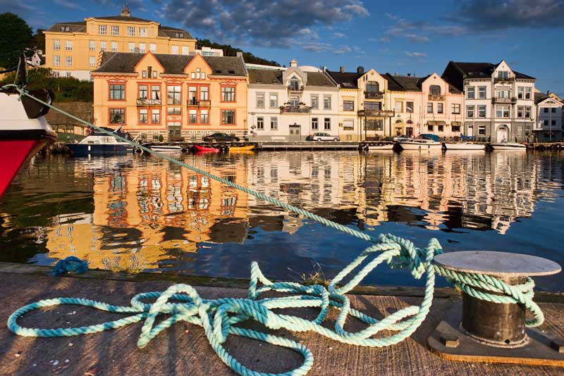 daybreak in Farsund, NorwayEsperanto: tagiĝo en Farsund, Norvegio